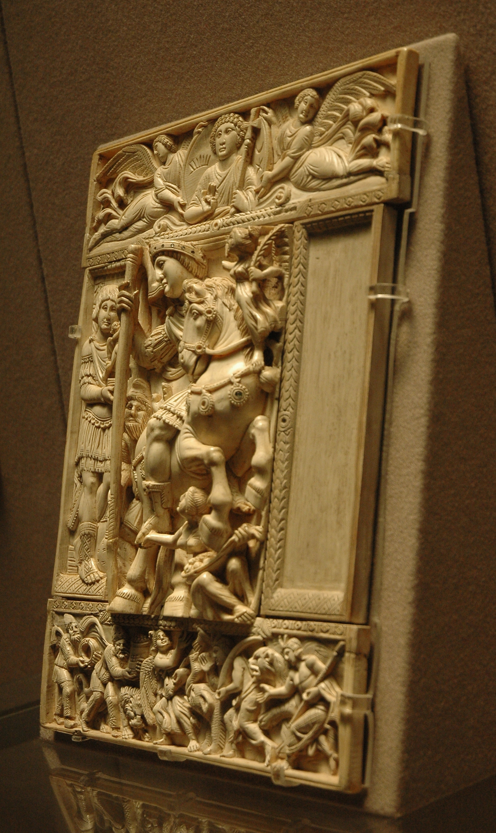 Barberini diptych, three quarters view. Constantinople, early 6th c., Late Roman Theodosian style, ivory.